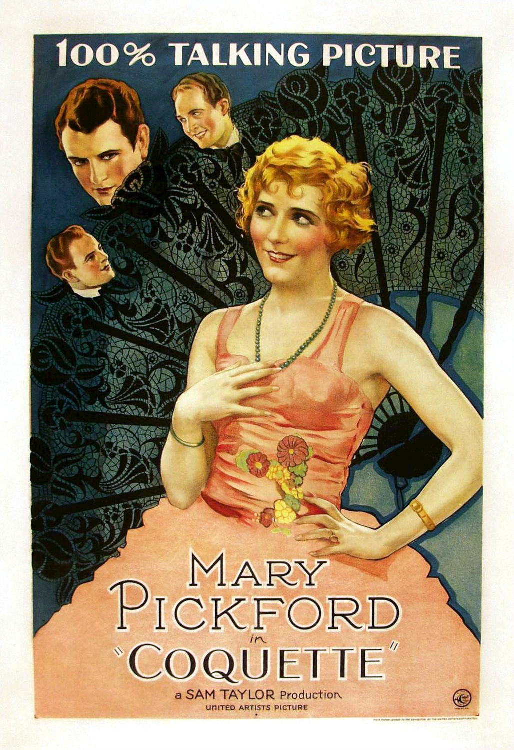 Poster for the 1929 film Coquette. The item has no copyright markings on it as can be seen in the links above. At lower right is a logo for the Morgan Litho Company and litho in USA--they printed the poster. Below that is This poster leased to the exhibitor by United Artists Corporation.